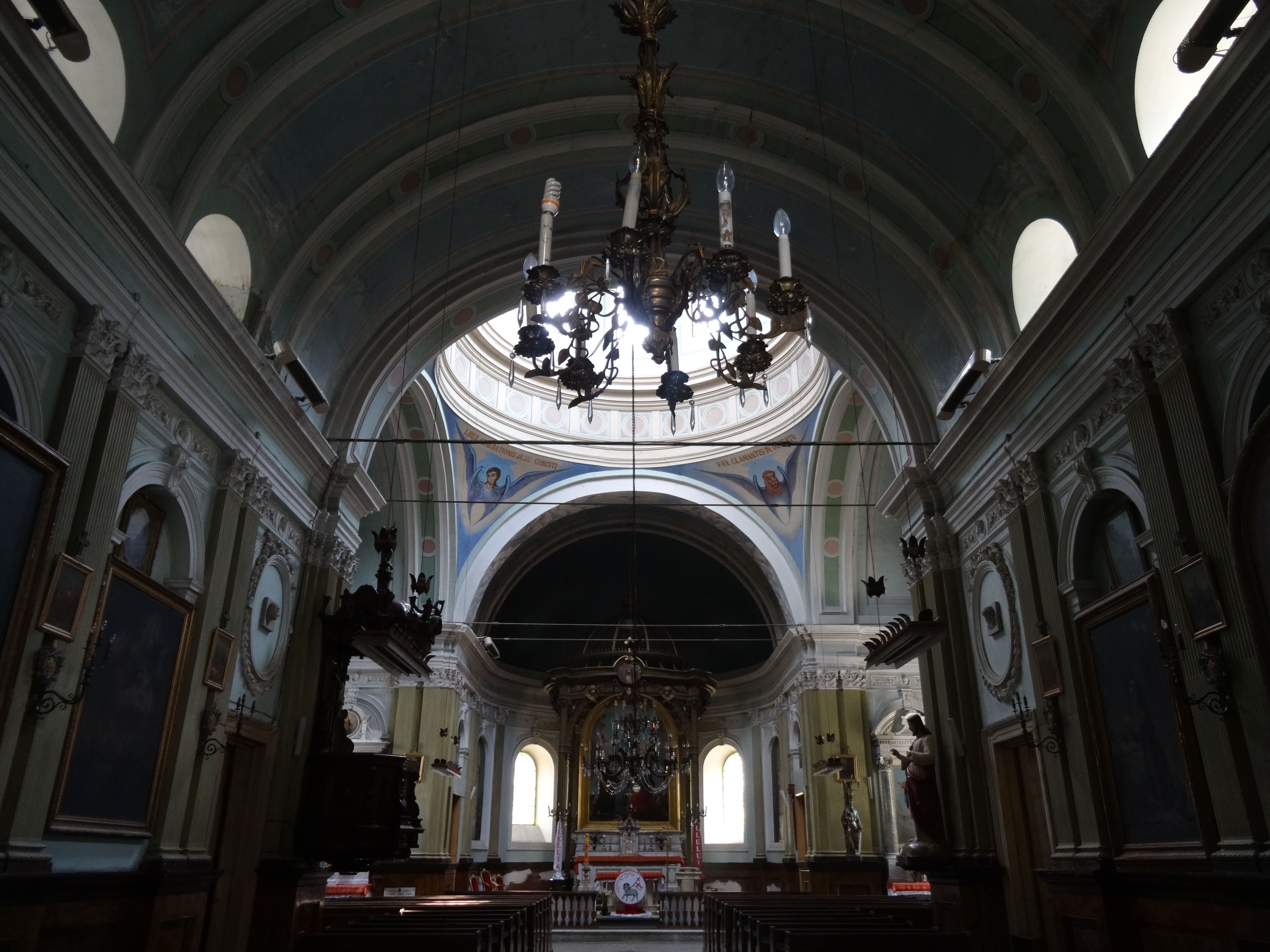 Inside St. Peter and St. Paul's Church, Tbilisi, Georgia